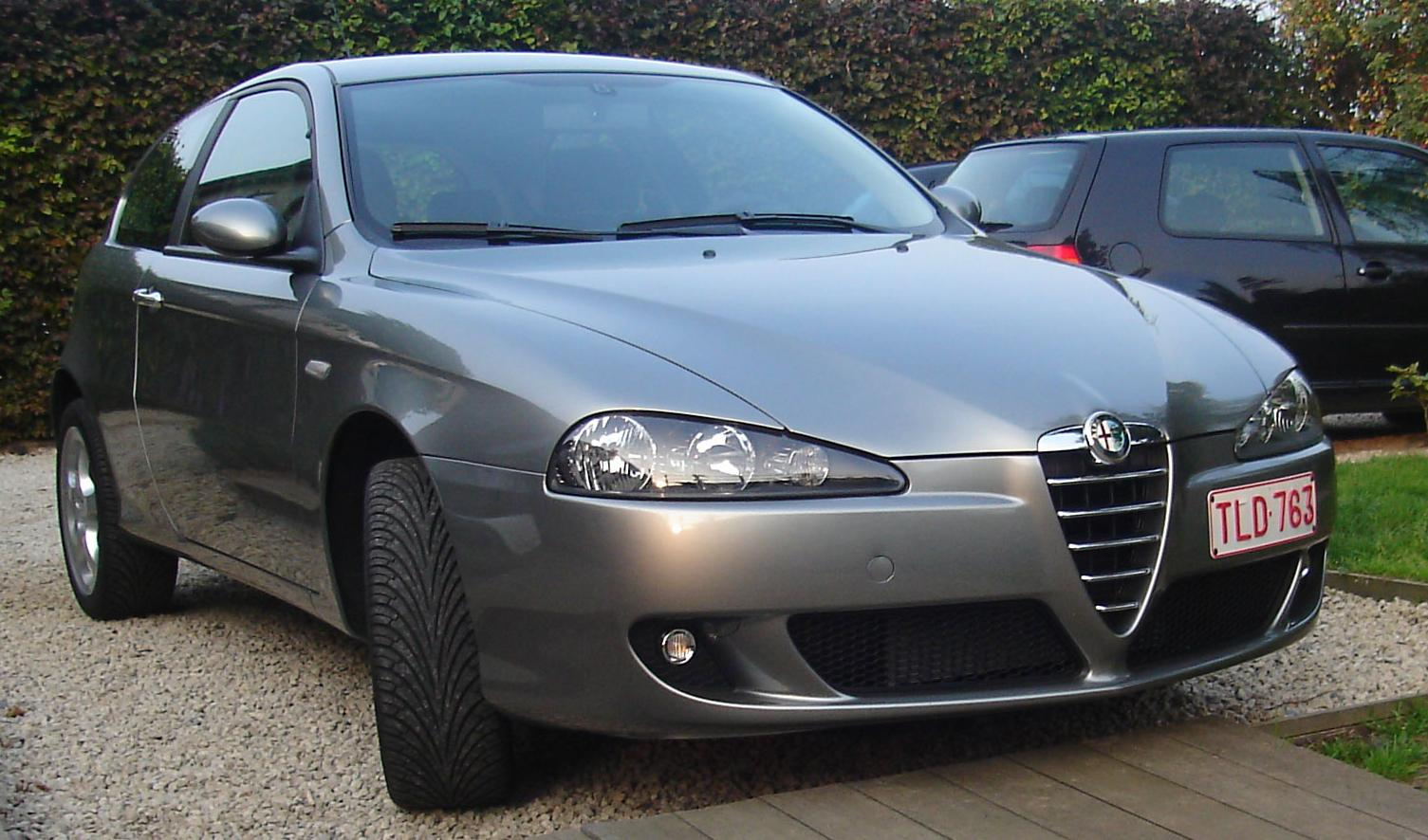 Self made pic of Alfa Romeo Nuova 147 (2005).